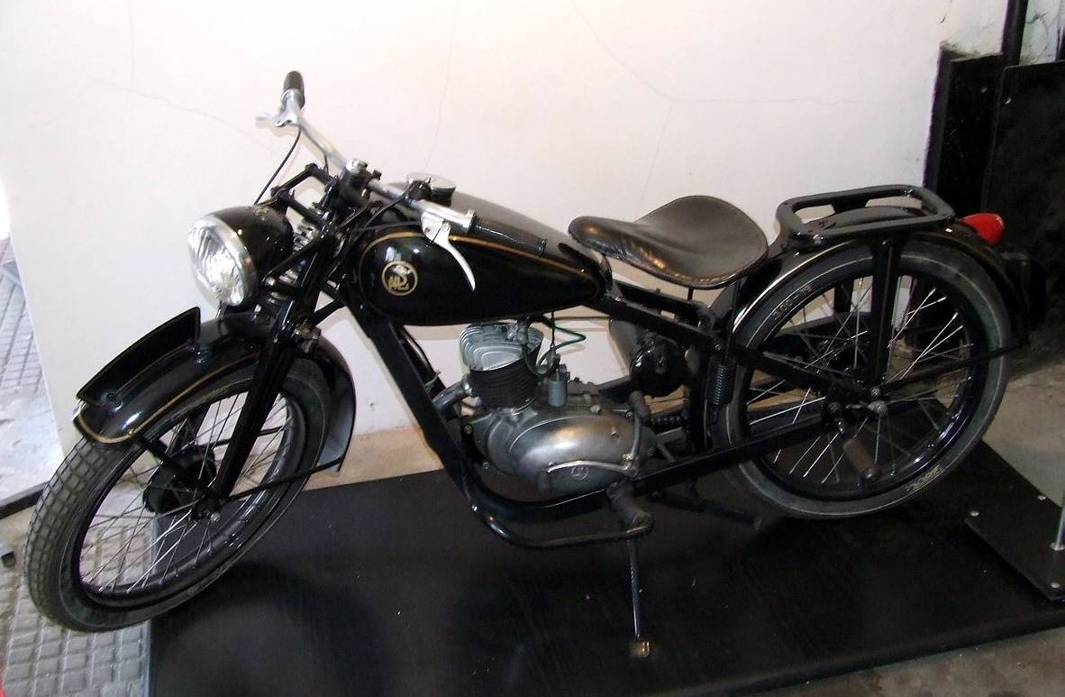 Polish SHL M04 motorcycle, 1948-1952